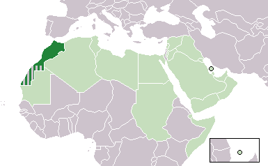 Map of Morocco